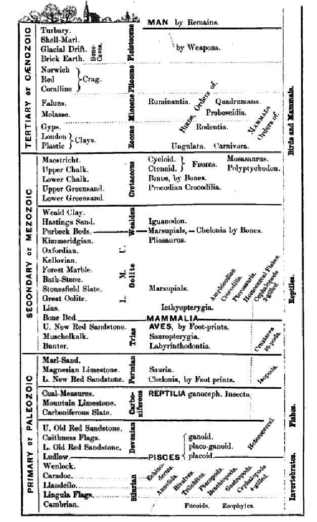 PNG conversion of Image:Owen geologic timescale.jpg from commons